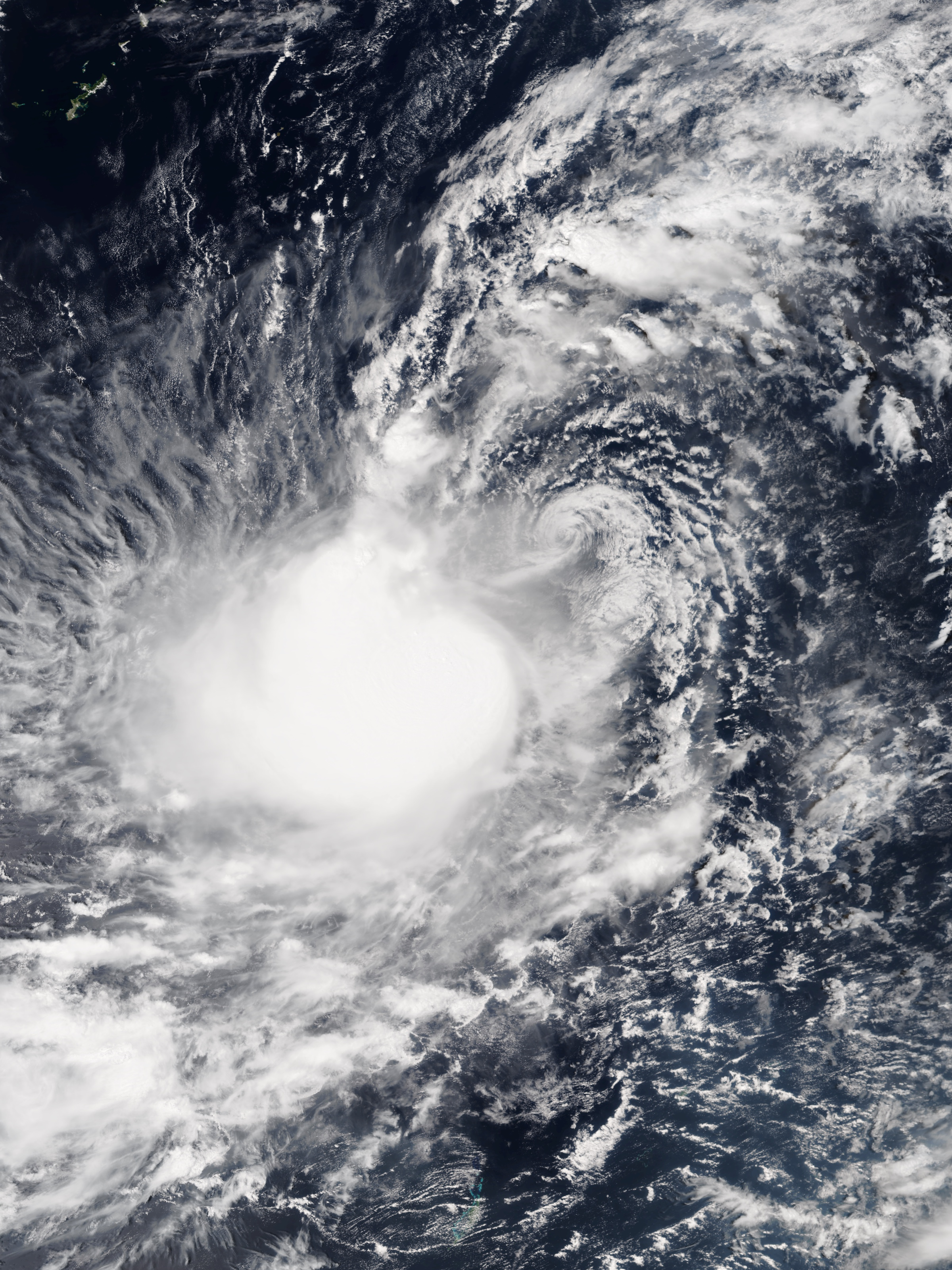 Tropical Storm Dujuan with multiple vortices (including that fully-exposed low-level circulation center) on September 23, 2015.